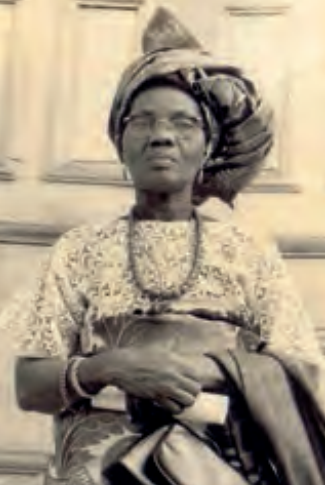 Family pic of her on 70th birthday from Funmilayo Ransome-Kuti And The Women’s Union of Abeokuta Comic strip Illustrations: Alaba Onajin Script and text: Obioma Ofoego - Published by UNESCO with share alike license